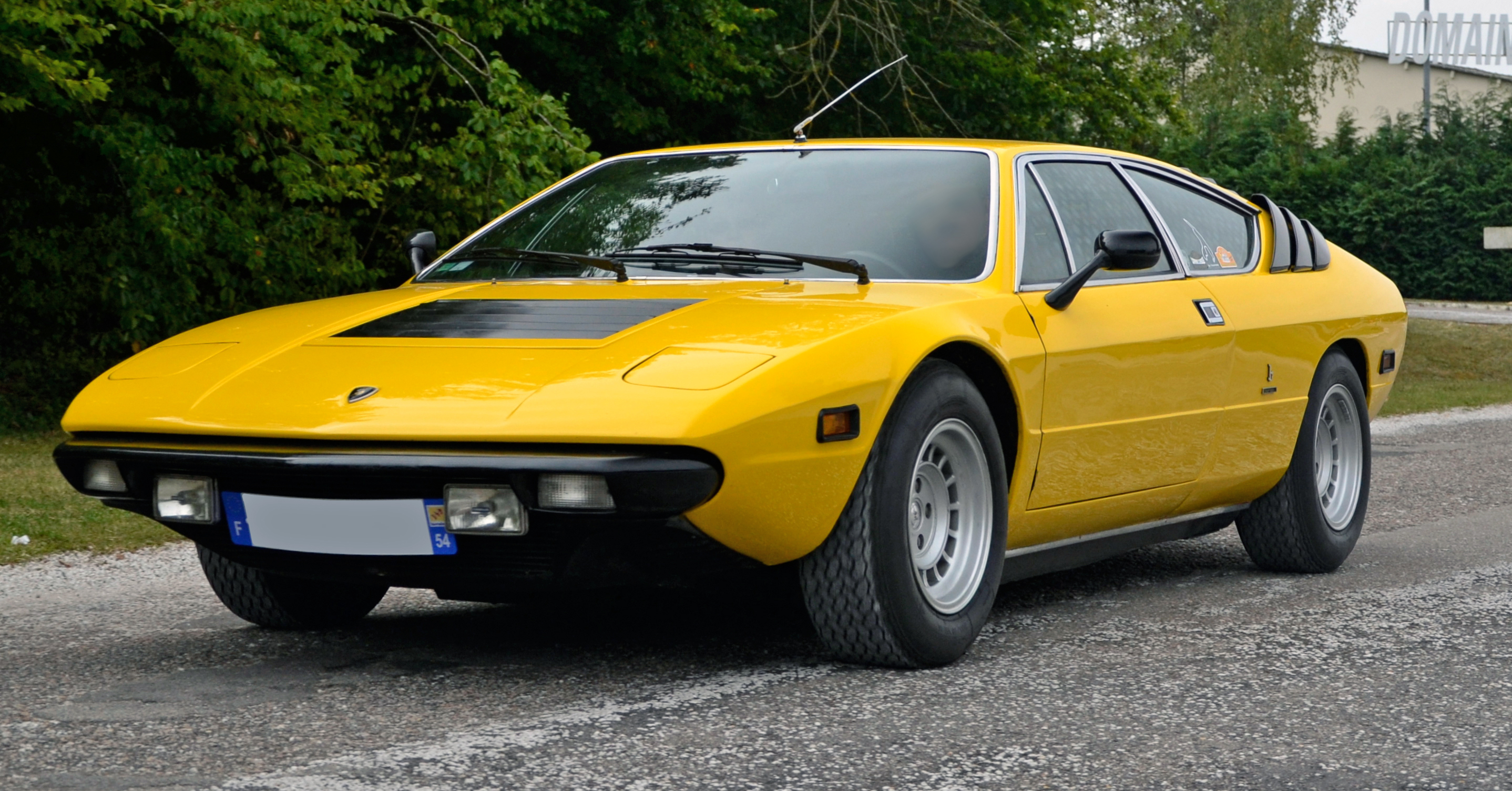 Lamborghini Urraco P111, a US market version of which only 21 were built from 1974 until 1976.